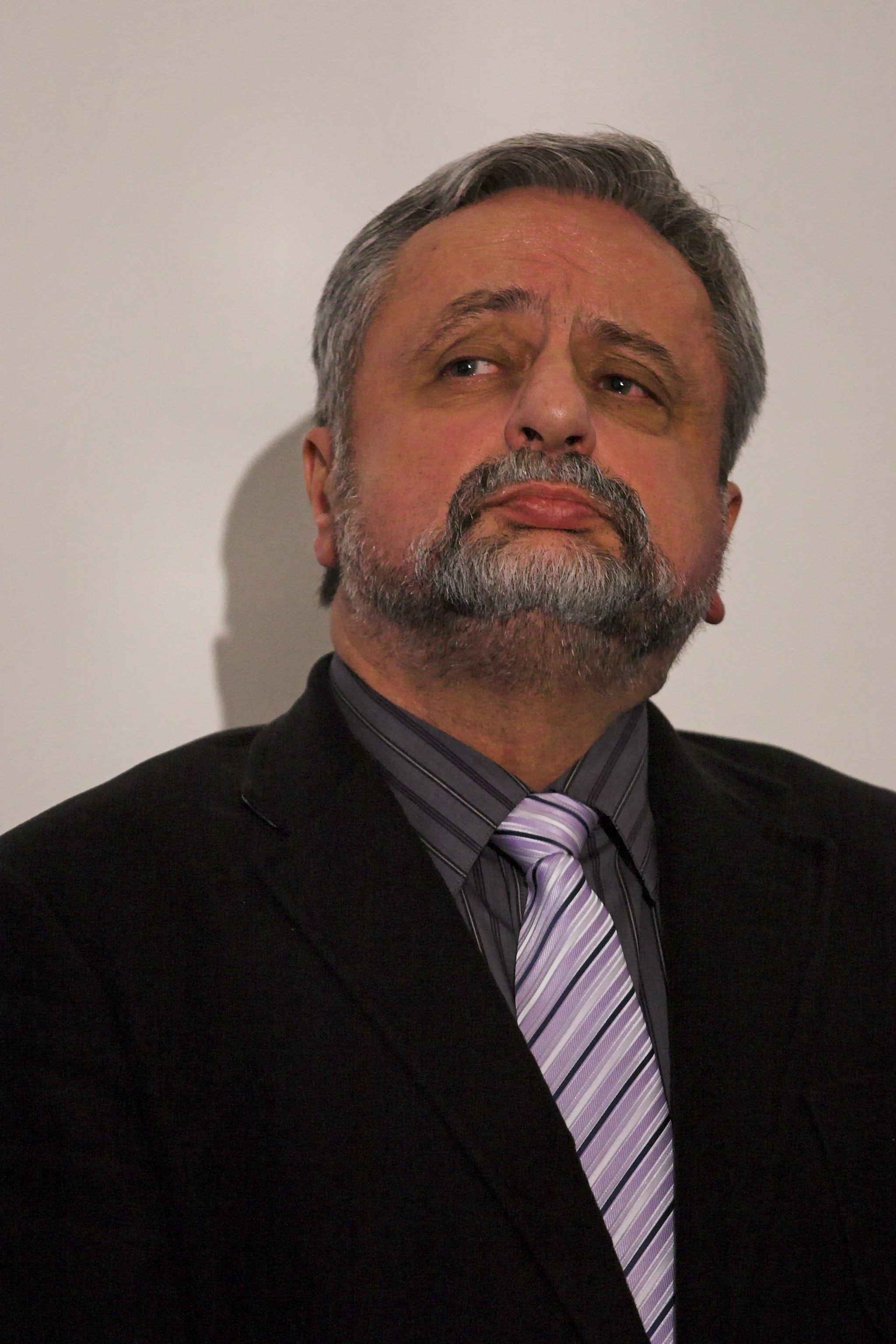 Miloslav Bednář at first press conference of the Strana svobodných občanů, January 2009, Prague, Czech Republic.